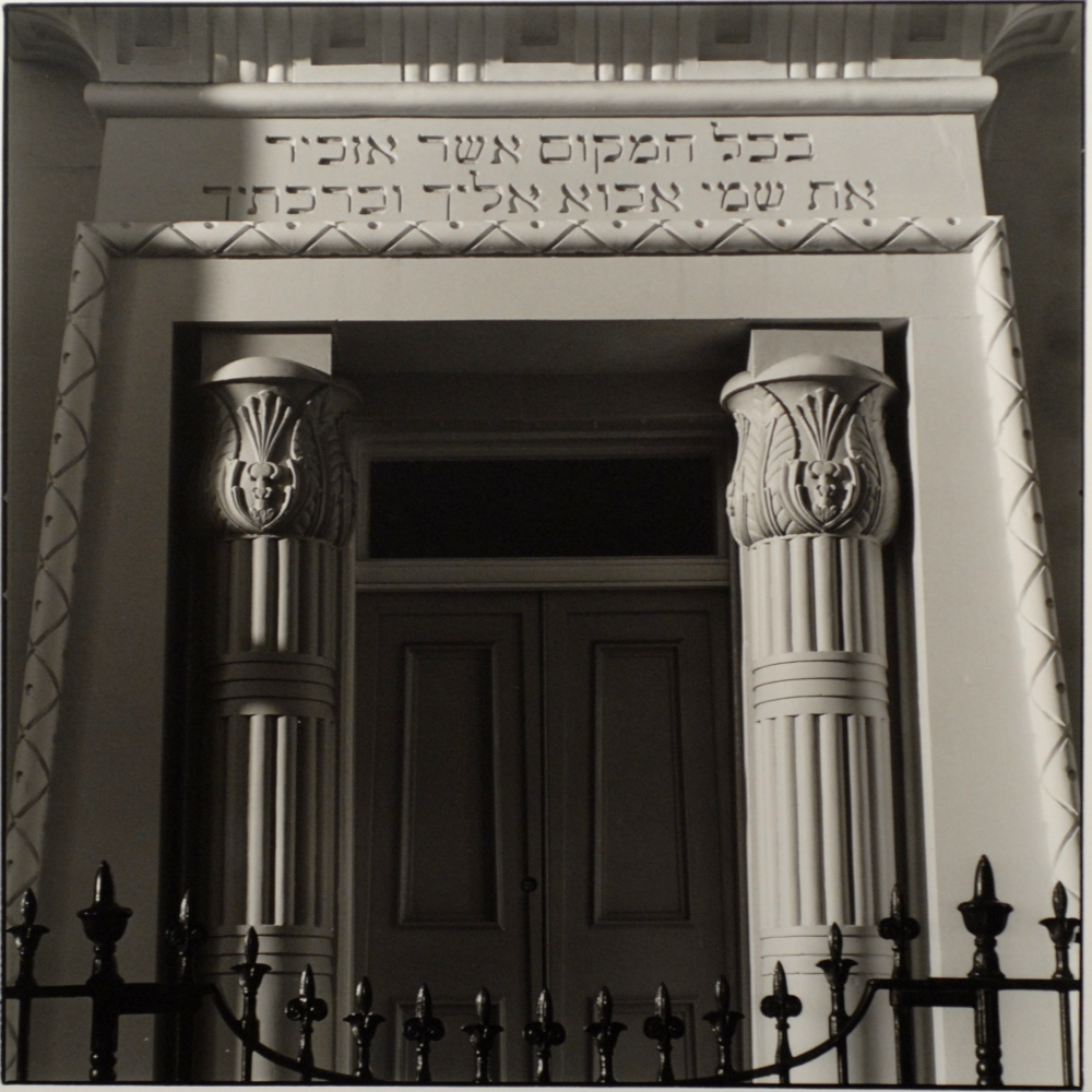 Hobart Synagogue, the second oldest in Australia.